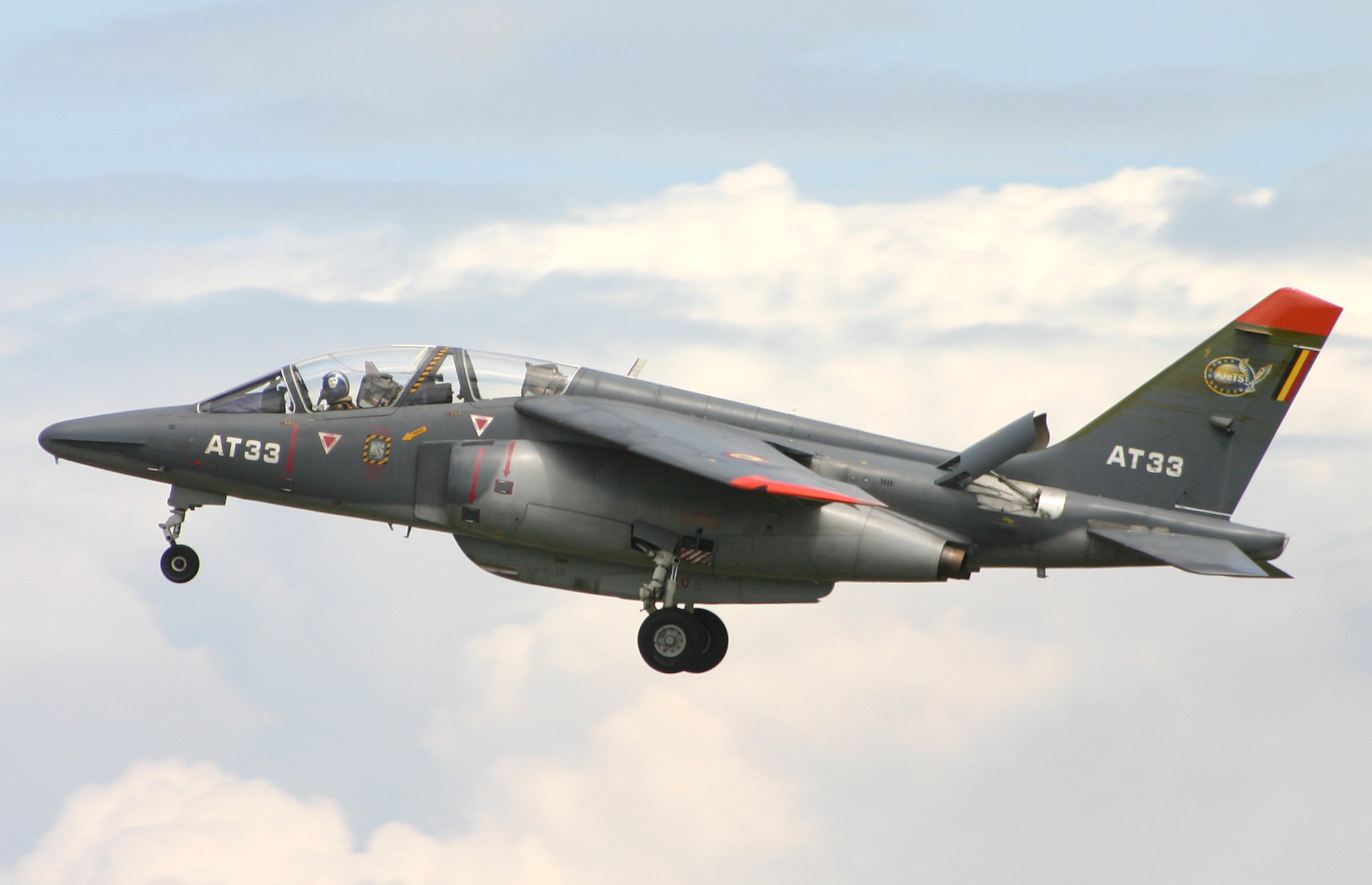 Landing after displaying as part of the AJetS team operated by 11Sm, Belgian AF. c/n 1155, l/n B33. 2011 Koksijde Airshow, Belgium. 07-07-2011